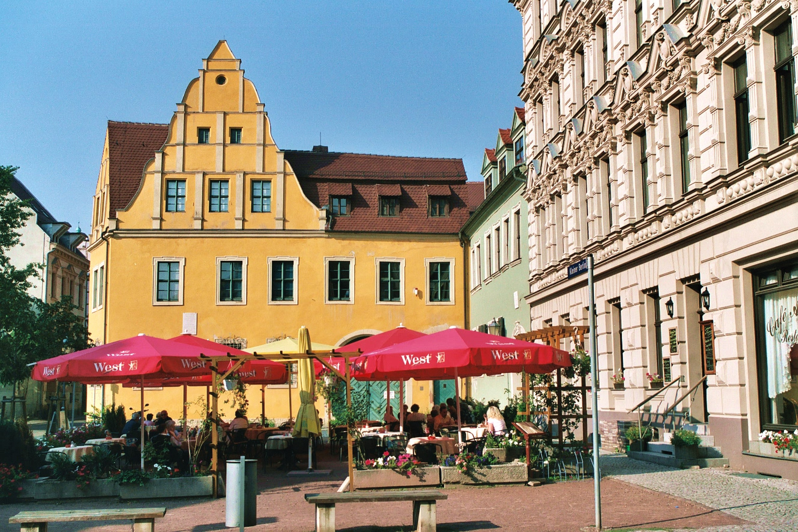 Halle (Saale), view to the Christian Wolff house